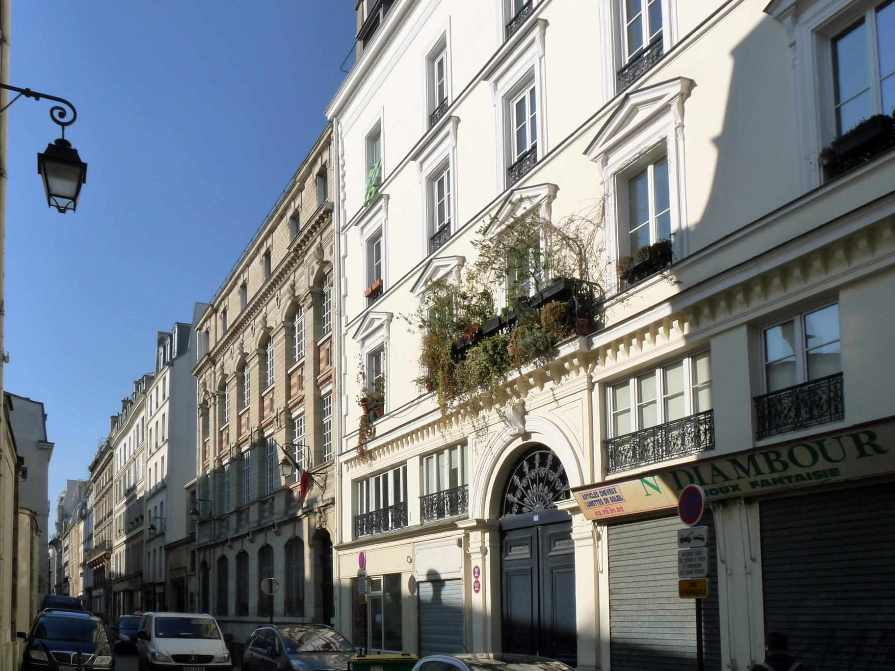 Rue de Montmorency (Paris, France), looking west, taken near the Rue du Temple